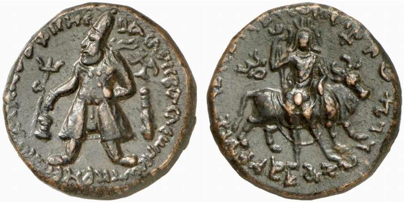 Wima Kadphises coin